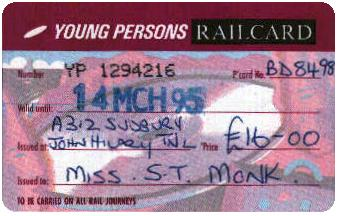 APTIS-style Young Persons Railcard issued at an agency. Scanned from my own collection.